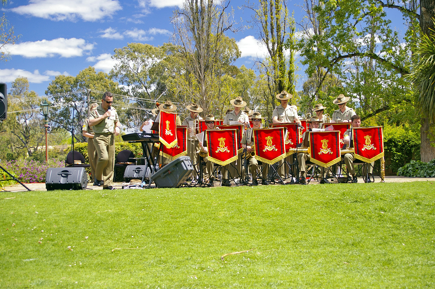 Australian Army Band Kapooka performing at Stress Less Day (Part of Mental Health Week) in the Victory Memorial Gardens.